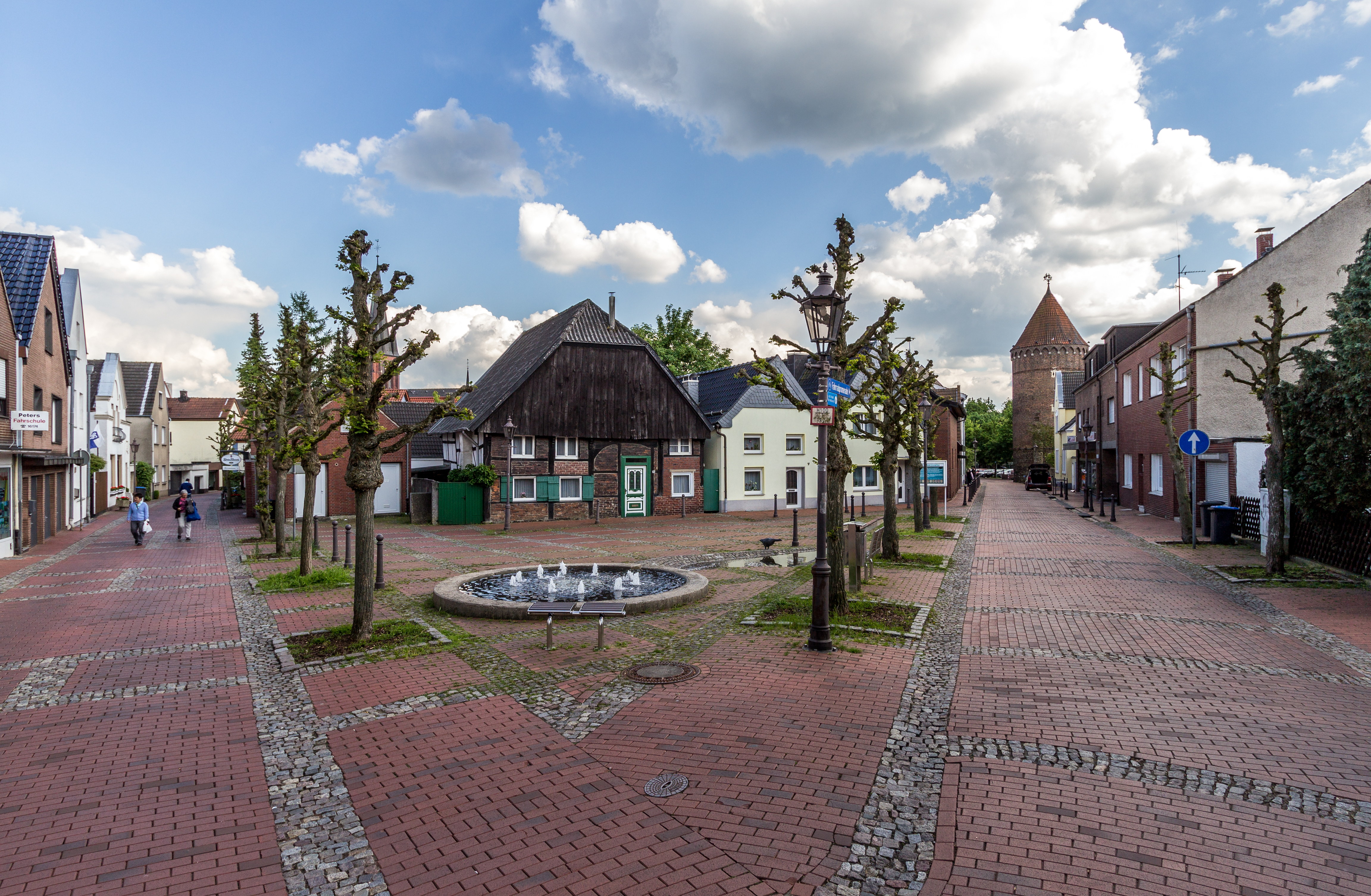 Gänsemarkt, Haltern am See, North Rhine-Westphalia, Germany This image shows a heritage building in Germany, located in the North Rhine-Westphalian city Haltern am See (no. 3). This image shows a heritage building in Germany, located in the North Rhine-Westphalian city Haltern am See (no. 17).